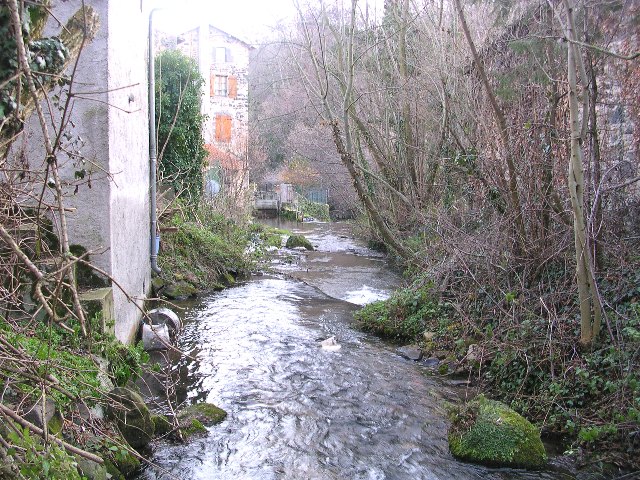 The Auzon river in the village of Chanonat (Puy-de-Dôme, France).